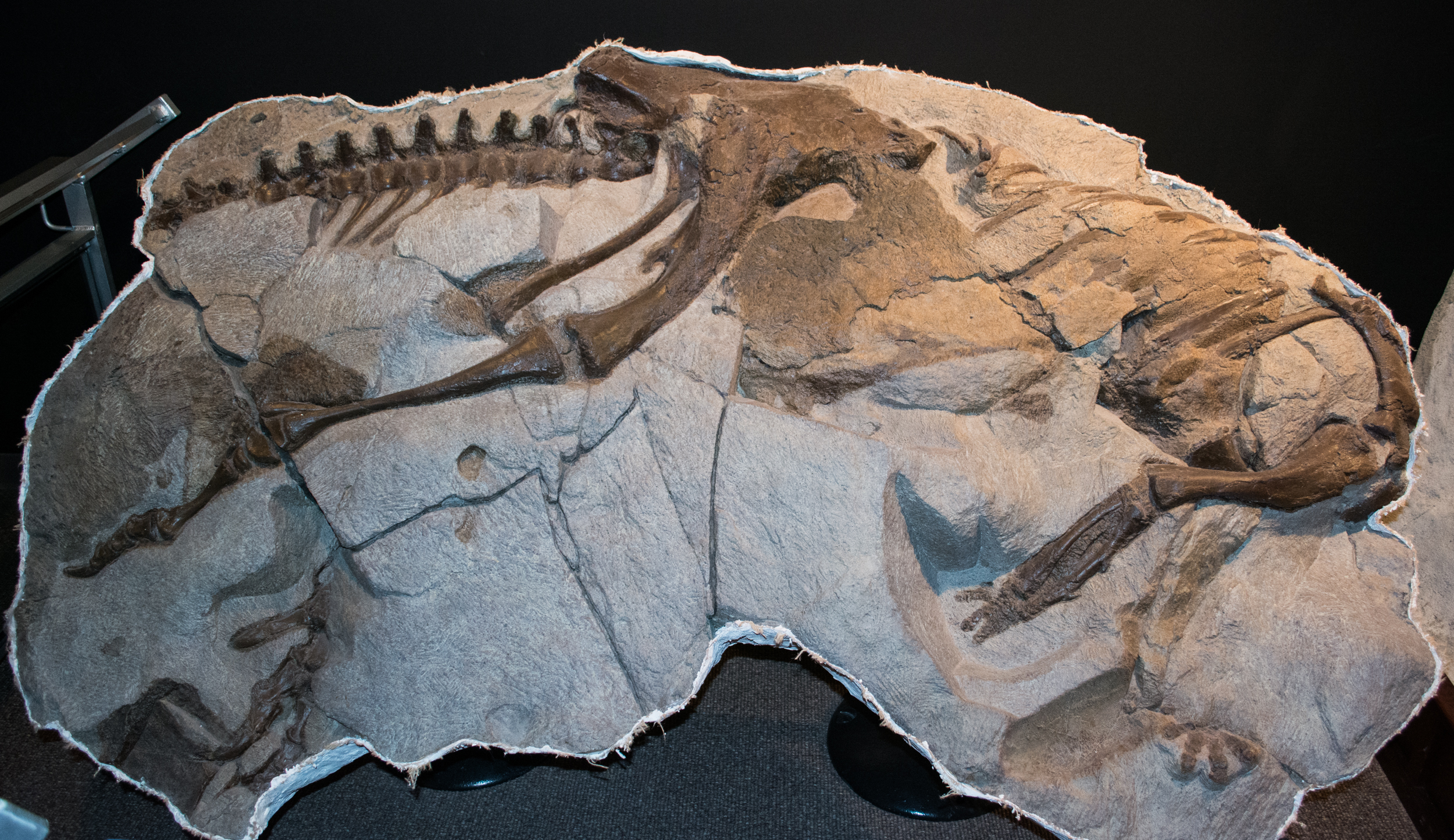 Thescelosaurus neglectus skeleton on display at the Museum of the Rockies in Bozeman, Montana. This fossil was discovered in 1997 in Dawson County, Montana. It is one of the most complete Thescelosaurus skeletons ever found. Thescelosaurus neglectus lived 72 to 66 million years ago. It was a small, bipedal herbivore about 8 to 13 feet in length and weight 450 to 660 pounds. Thescelosaurus was first discovered in 1891 in Niobrara County, Wyoming.